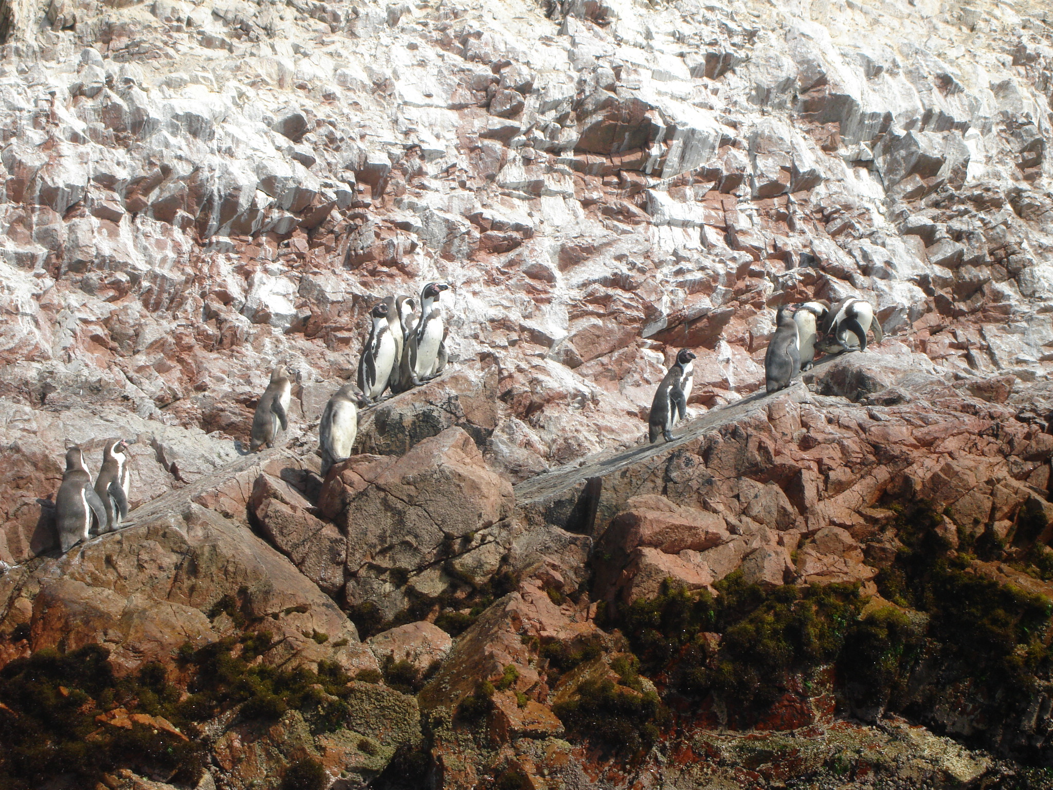 Description: Islas Ballestas Subject: Pingüinos Place: Reserva Nacional de Paracas Country: Peru Photographer: © Victoria Alexandra González Olaechea Yrigoyen Shot date : December, 9th, 2006